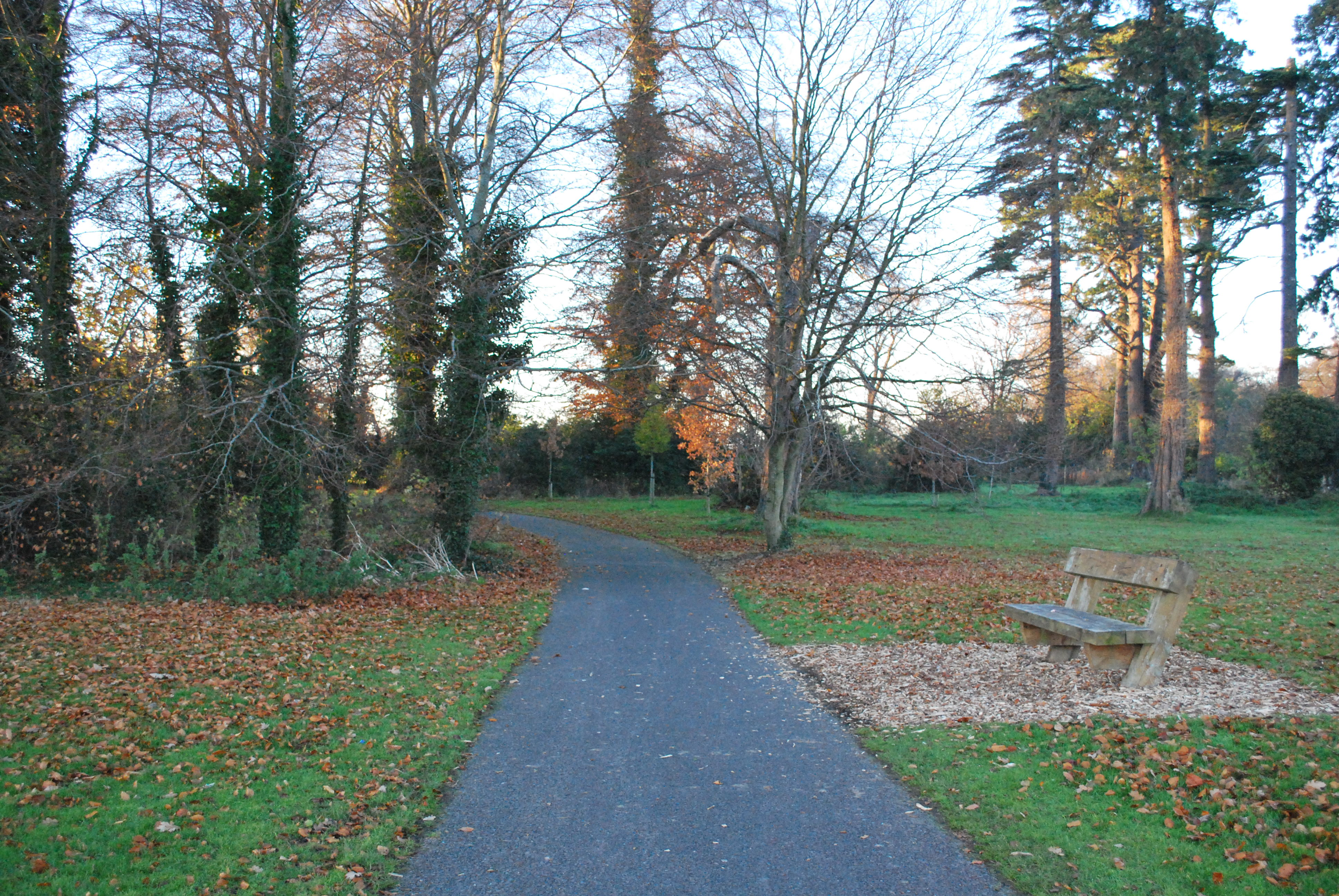 View of Millennium Park Blanchardstown from entrance beside Topaz petrol station